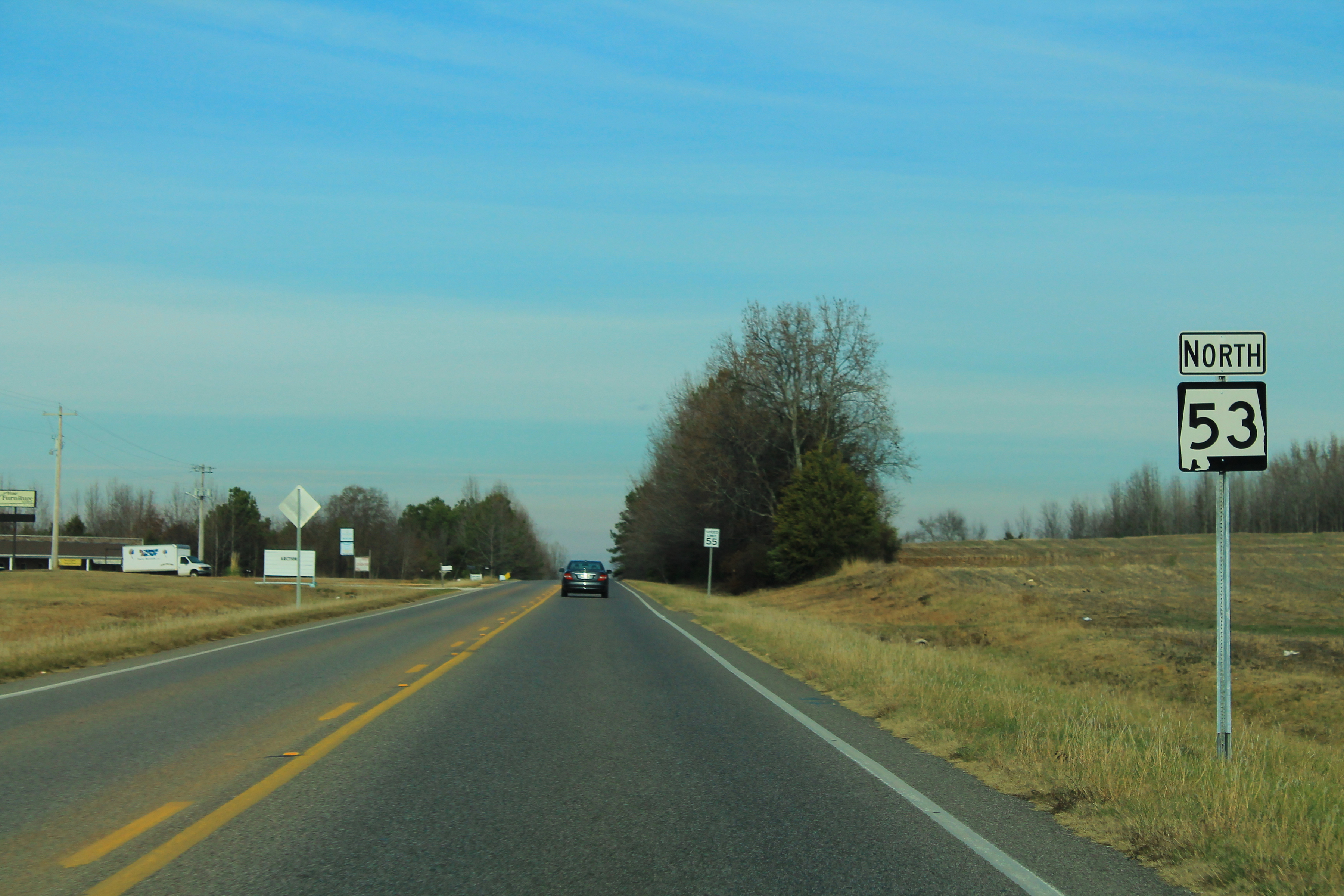 A sign denoting Alabama State Route 53 located in Toney, Alabama.